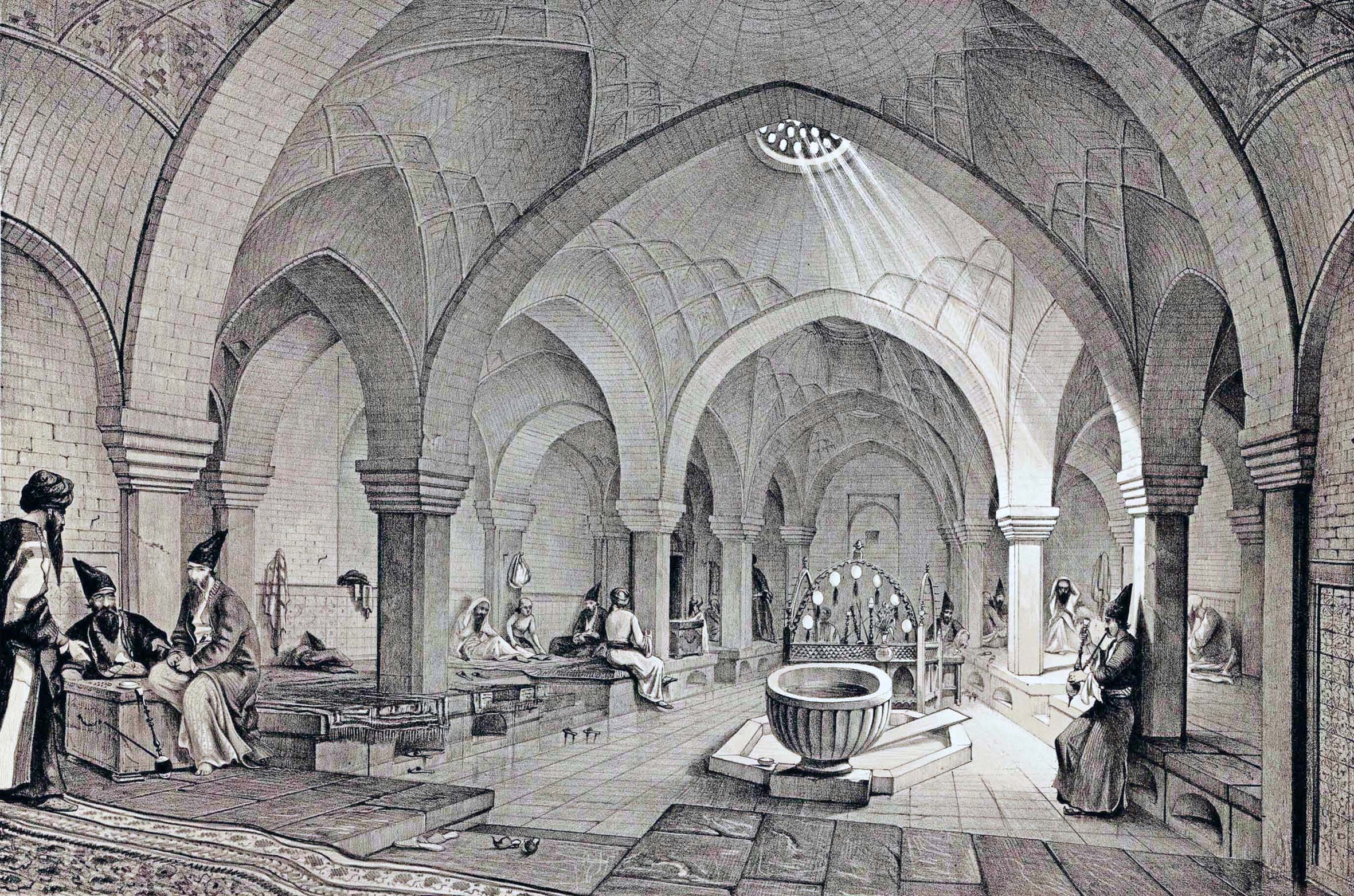 Inside of public baths to Kashan in Persia - Pascal Coste's lithography.